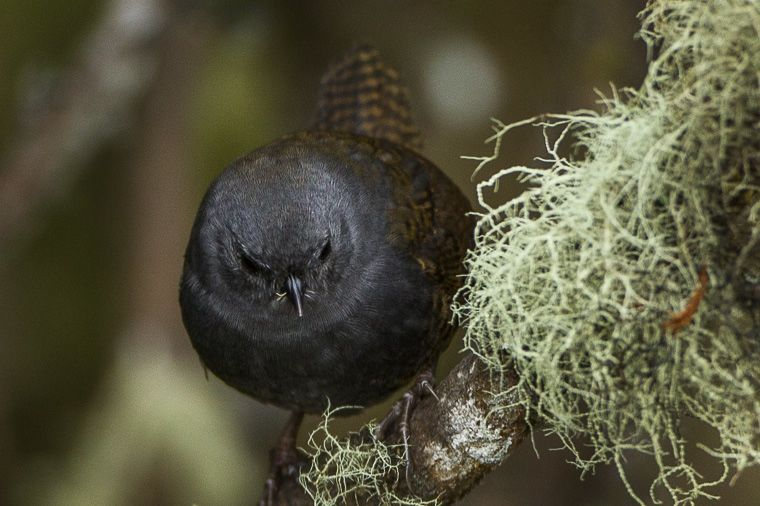 Paramo Tapaculo (Scytalopus opacus), Colombia, cropped